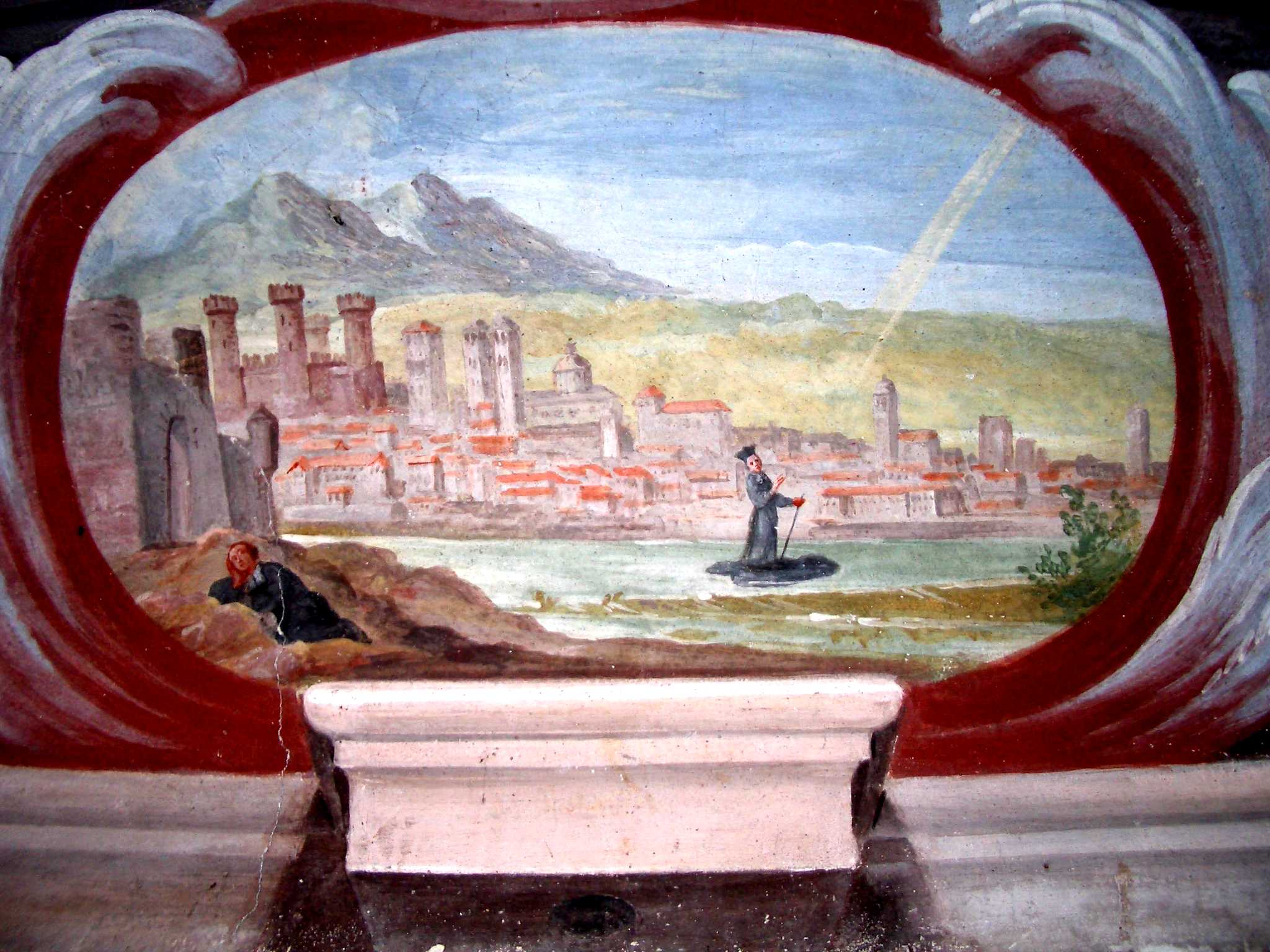 Saint Gaudenzio Church at Ivrea (Torino), XVIII century. Saint Gaudentius floating on his cloak on Dora river. Fresco by the painter Luca Rossetti da Orta (1738-39)